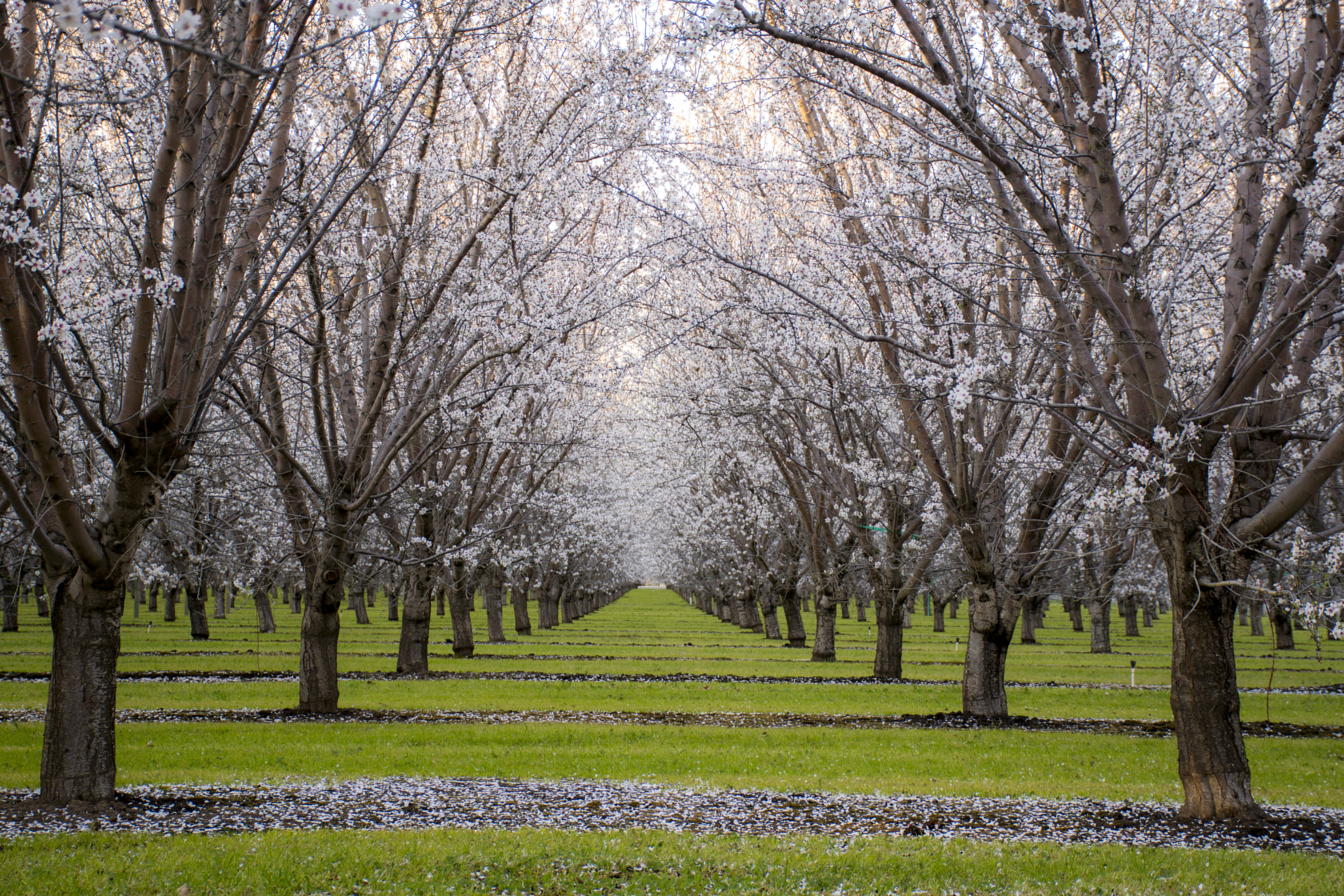 Almond trees in bloom near Chico, California. February 2018.